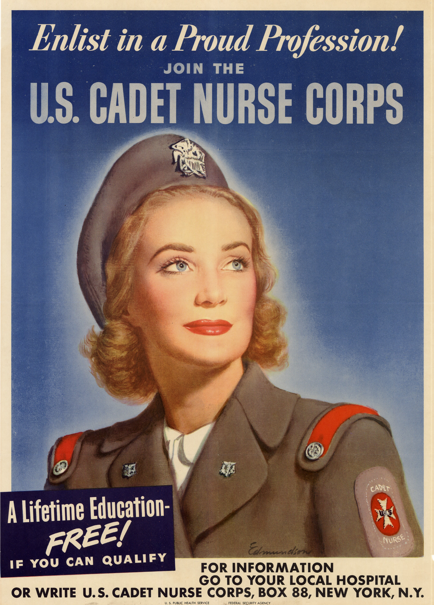 "Enlist in a Proud Profession! Join the U.S. Cadet Nurse Corps"